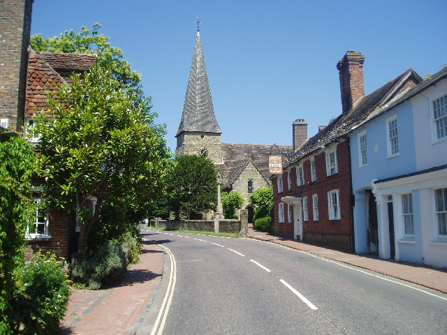 The Anglican Church in Lindfield, Haywards Heath.